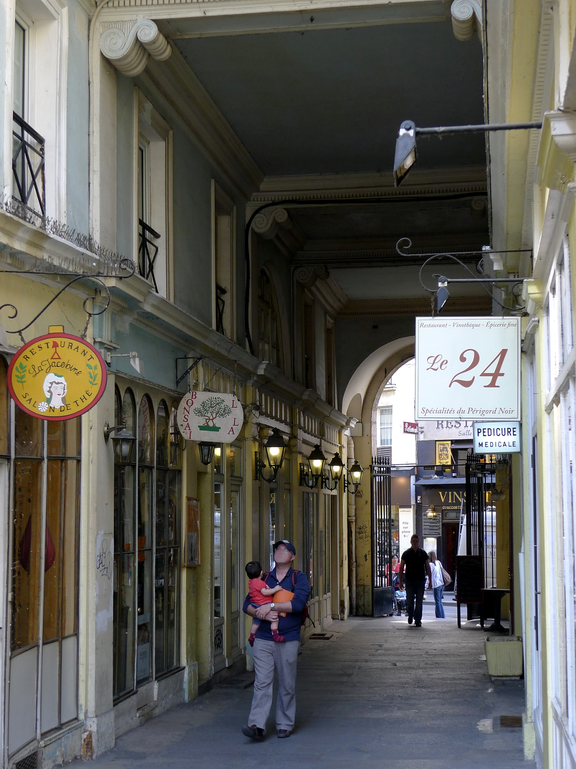 Cour du Commerce-Saint-André - Paris